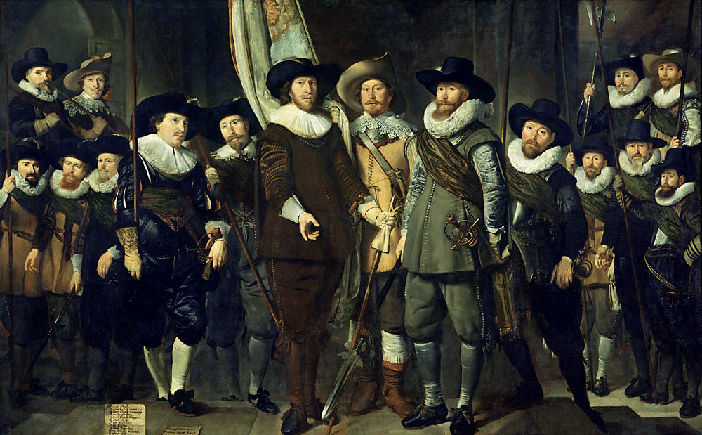 Officers and other militiamen of district III in Amsterdam lead by Captain Allaert Cloeck and Lieutenant Lucas Jacobsz. Rotgans. The other militiamen are: Claes Coeck Nanningsz (with banner), Jan Vogelensang, Gerrit Pietersz Schagen, Michiel Colijn, Hans Walschaert, Jan Kuysten, Adolf Fortenbeeck, Aris Hendrick Hallewat, Hendrick Colijn, Hademan van Laer, Dirck Pietersz Pers, Frederick Schulenborch, Thomas Jacobsz Hoingh and Julius van den Bergen.